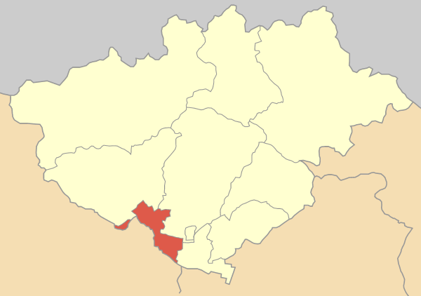 Locator map of Sitagri municipality (Δήμος Σιταγρών) in Drama prefecture (Νομός Δράμας) in Greece.